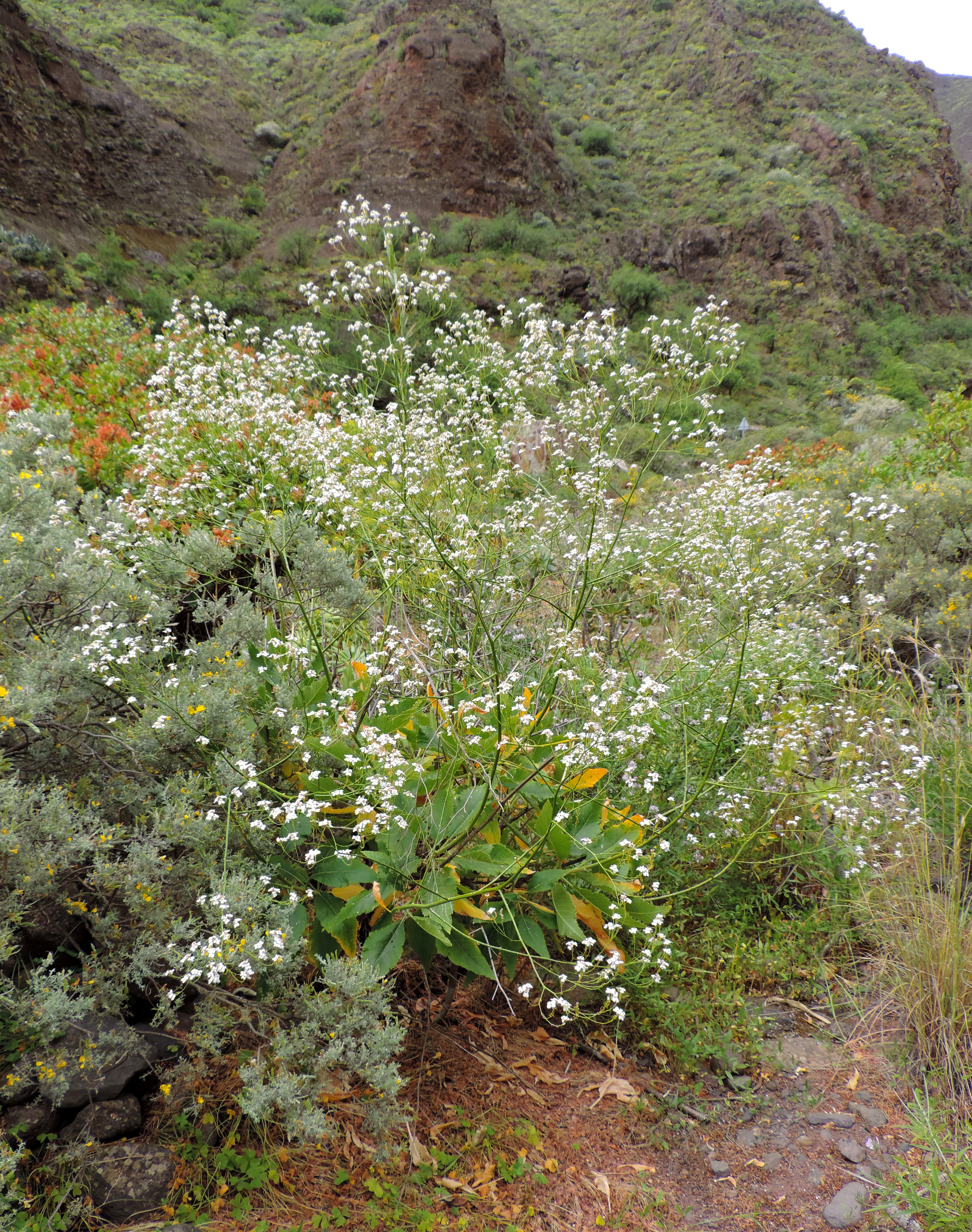 Crambe pritzelii in Barranco de Guayadeque (Gran Canaria)